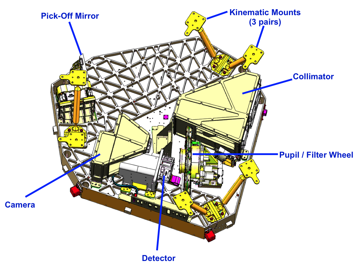 JWST niriss-layout